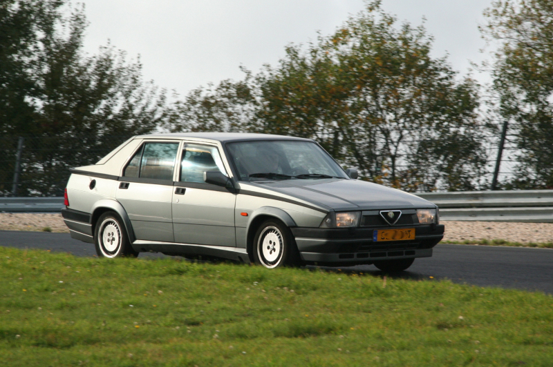 Alfa Romeo 75 Original photograph modified (cropped, removed license plate number and borders)